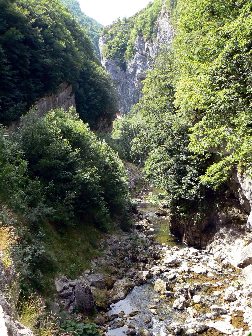 Gorges de la Bourne, Vercors, France